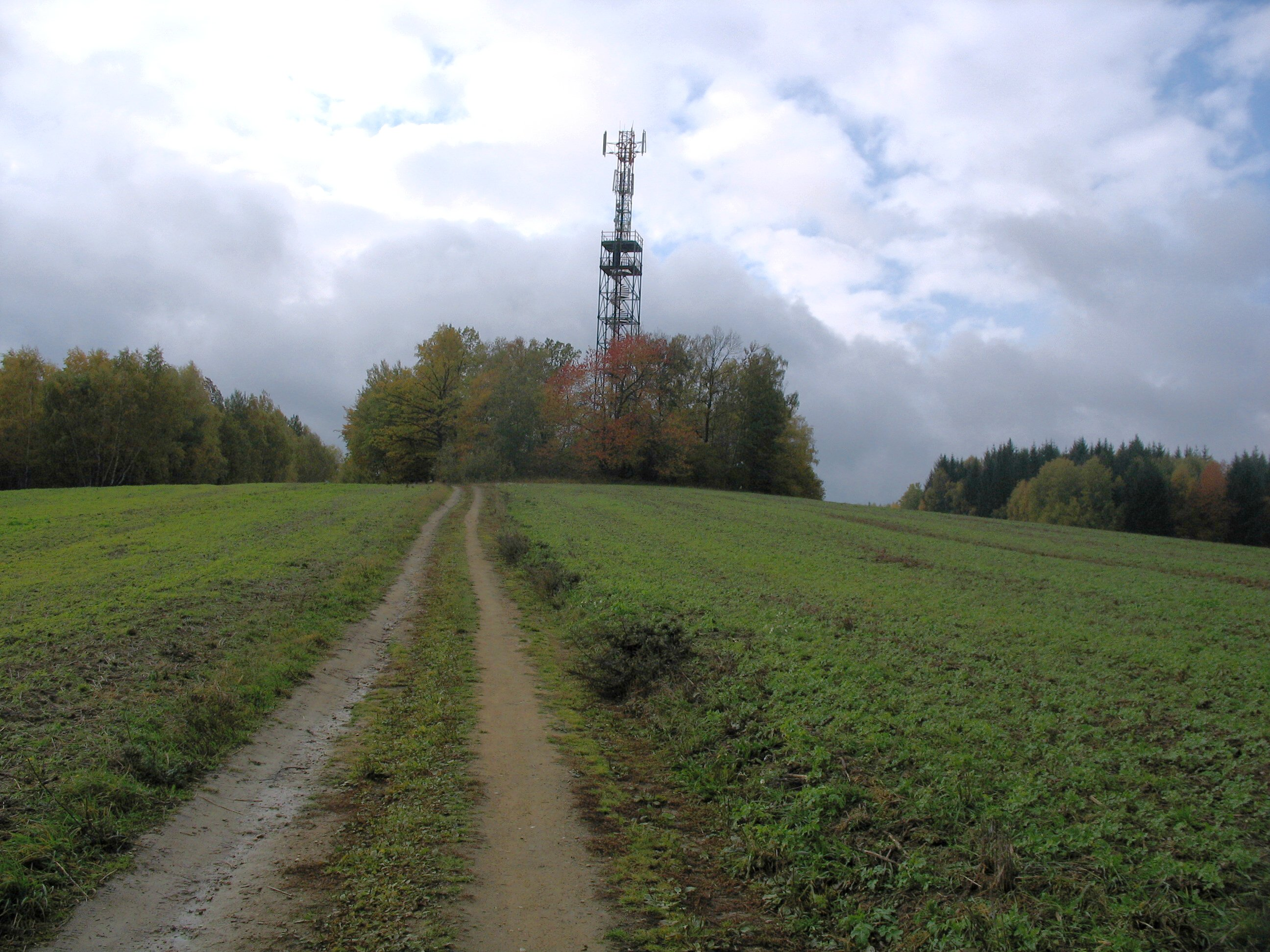 Tower Slabošovka, Czech Republic (Český Krumlov District)